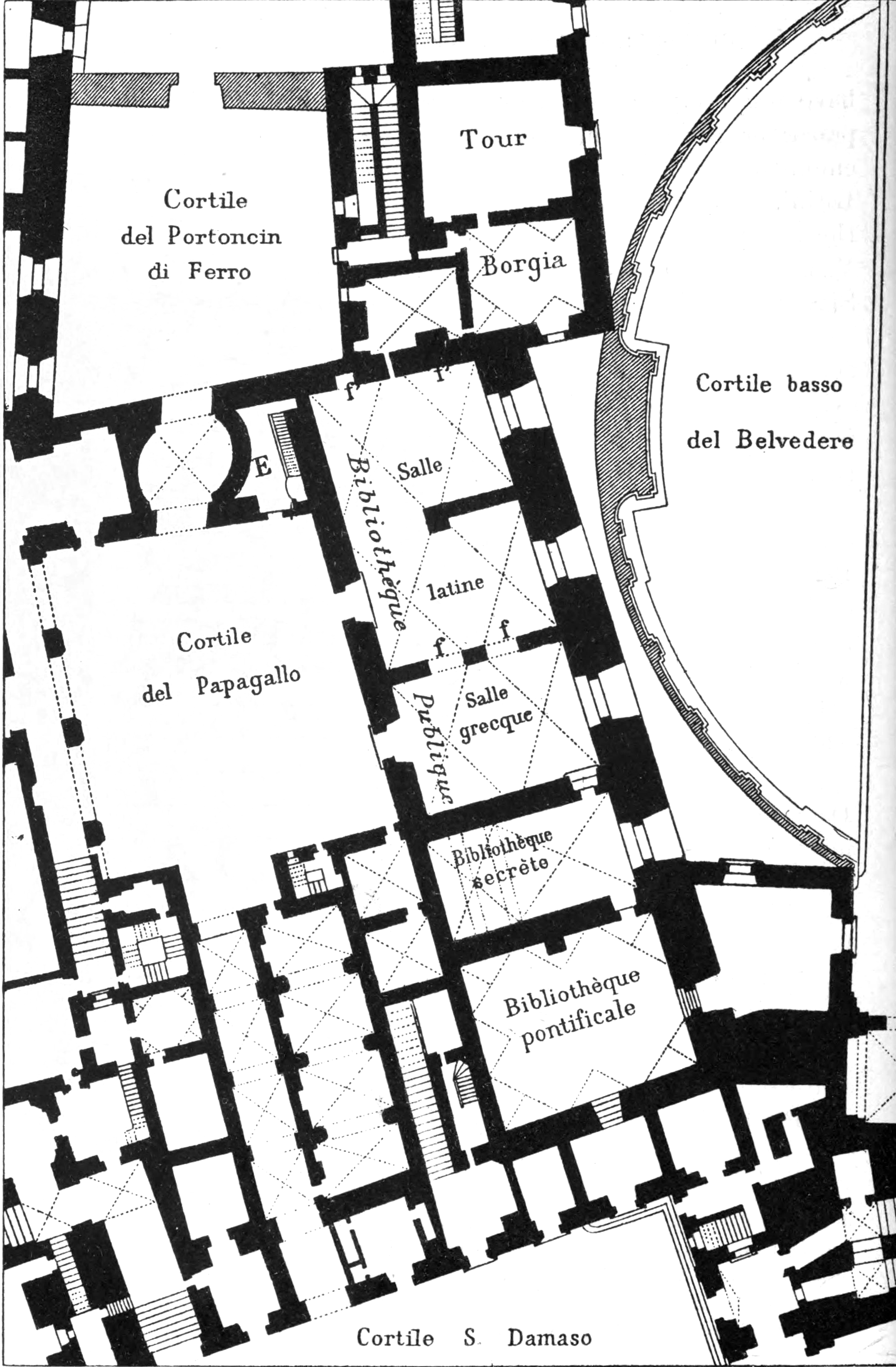 Ground-plan of part of the Vatican Palace from On the Vatican Library of Sixtus IV